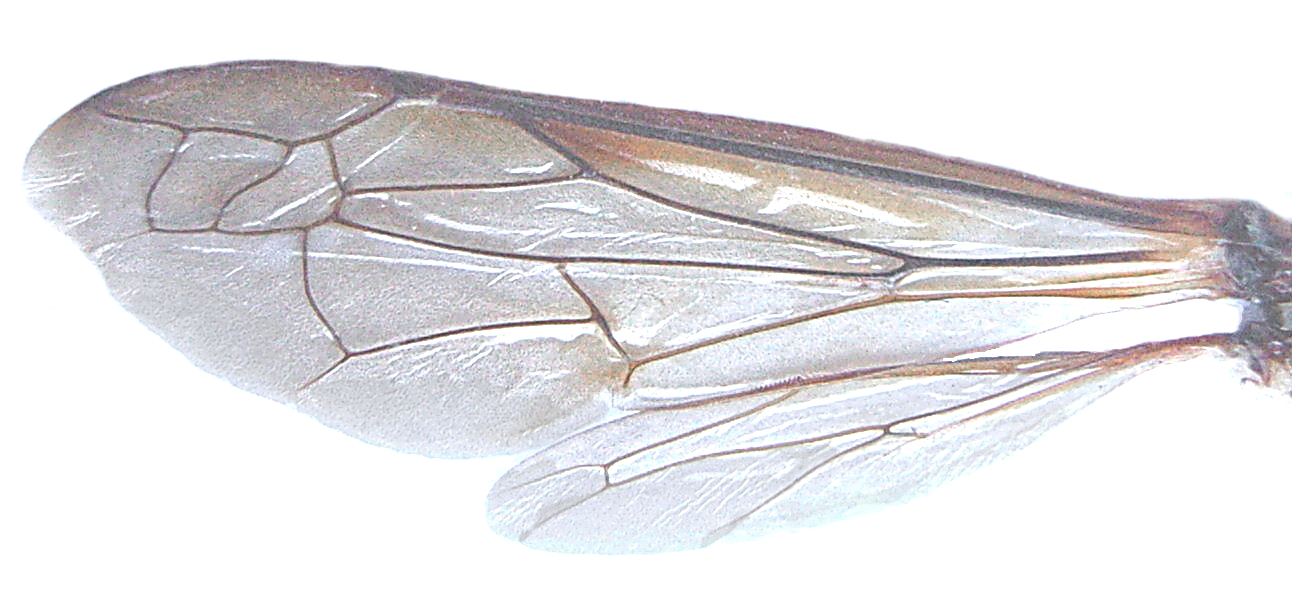 For- and hindwings of wasp unfolded